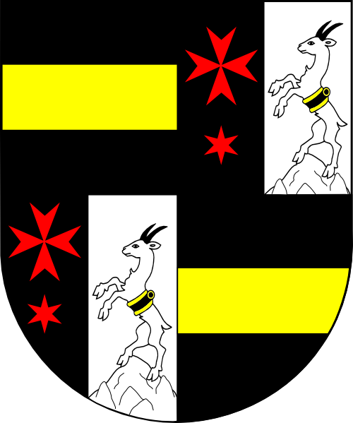 Coat of arms (shield only) of Martin Medek z Mohelnice, archbishop of Prague (1581 - 1590). Personal tinctures unknown.